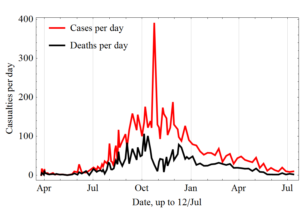 Temporal evolution of cases and deaths per day